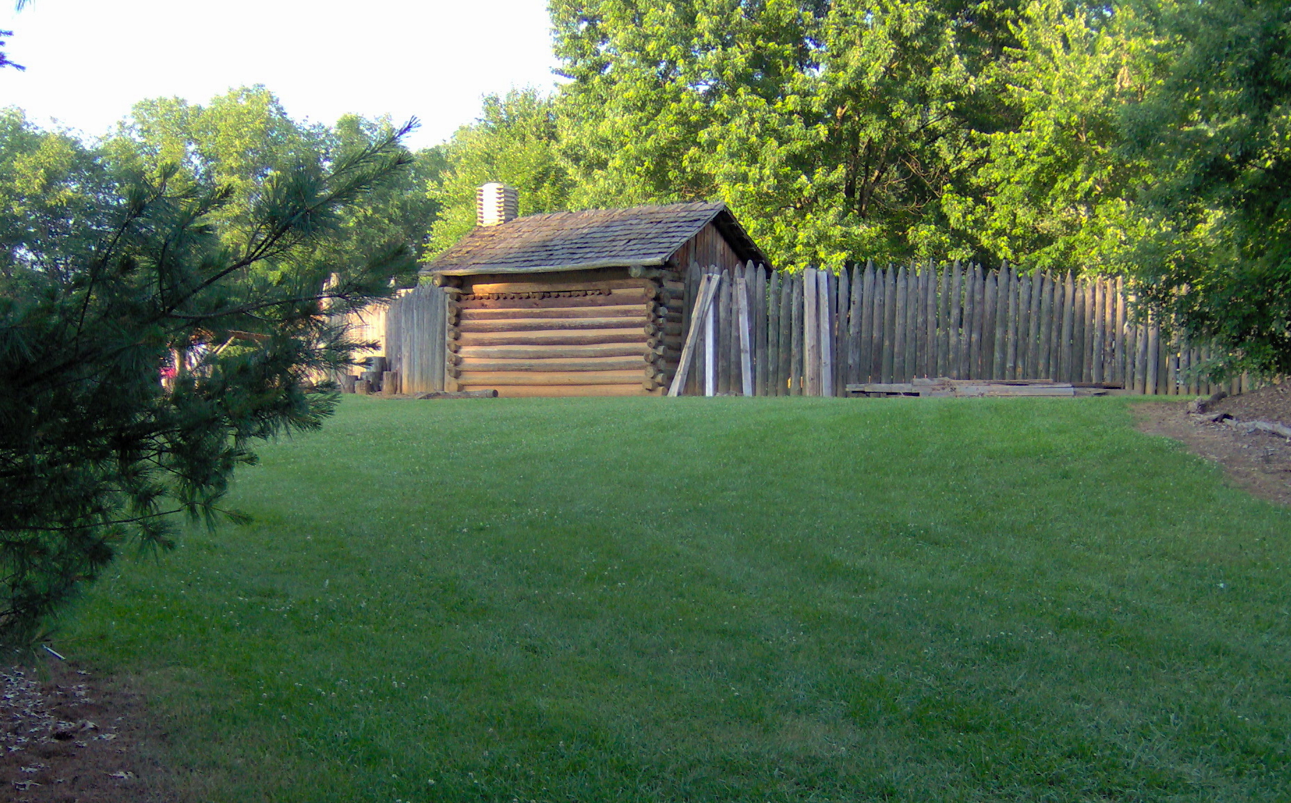 The reconstructed Fort Watauga at Sycamore Shoals State Historic Site in Elizabethton, Tennessee, USA. Originally called Fort Caswell, Fort Watauga was built in the 1770s by American frontiersmen in anticipation of a Cherokee invasion, which occurred on July 21, 1776. The fort was reconstructed in the 1970s.